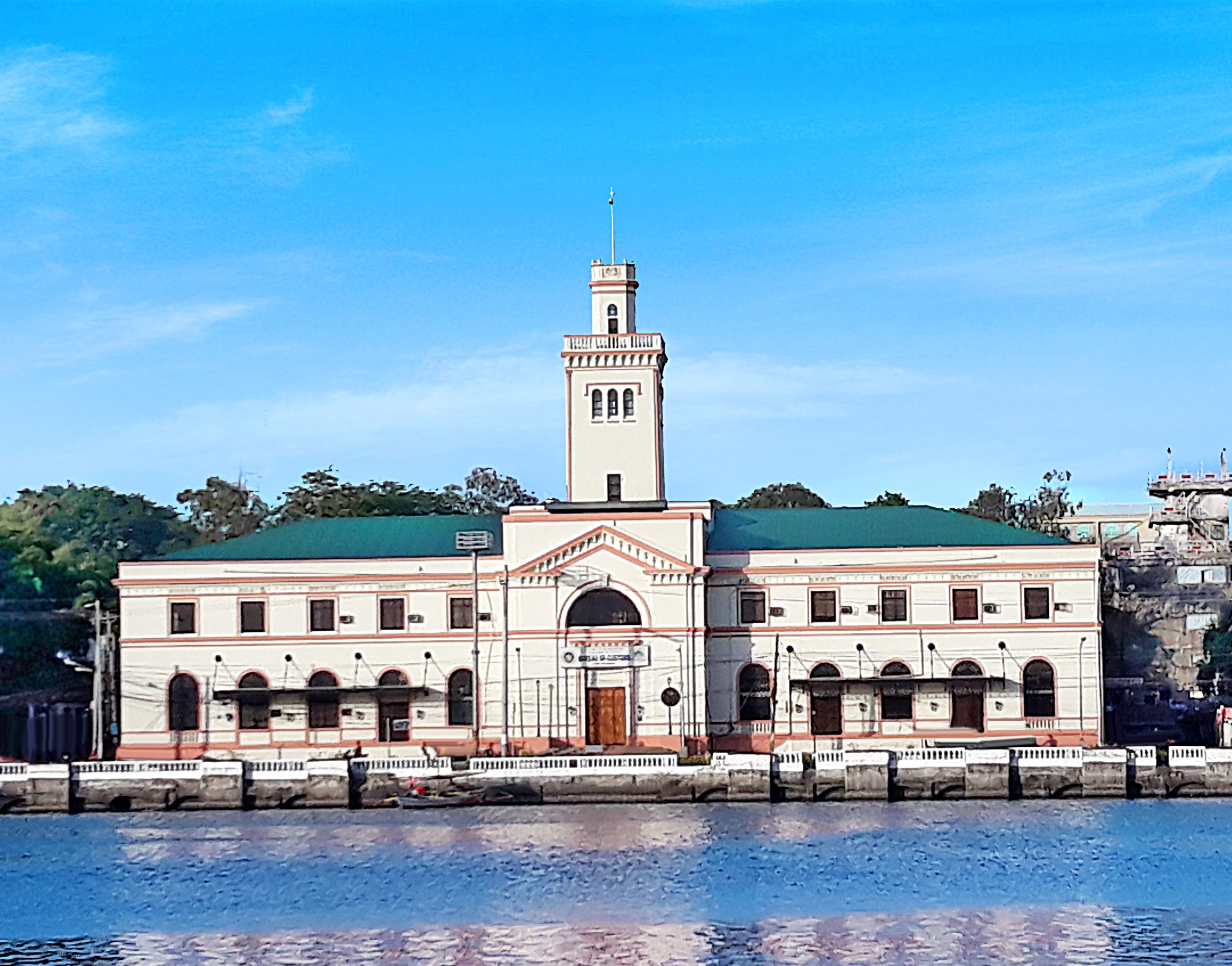 Aduana de Iloilo - Iloilo Customs House facade.